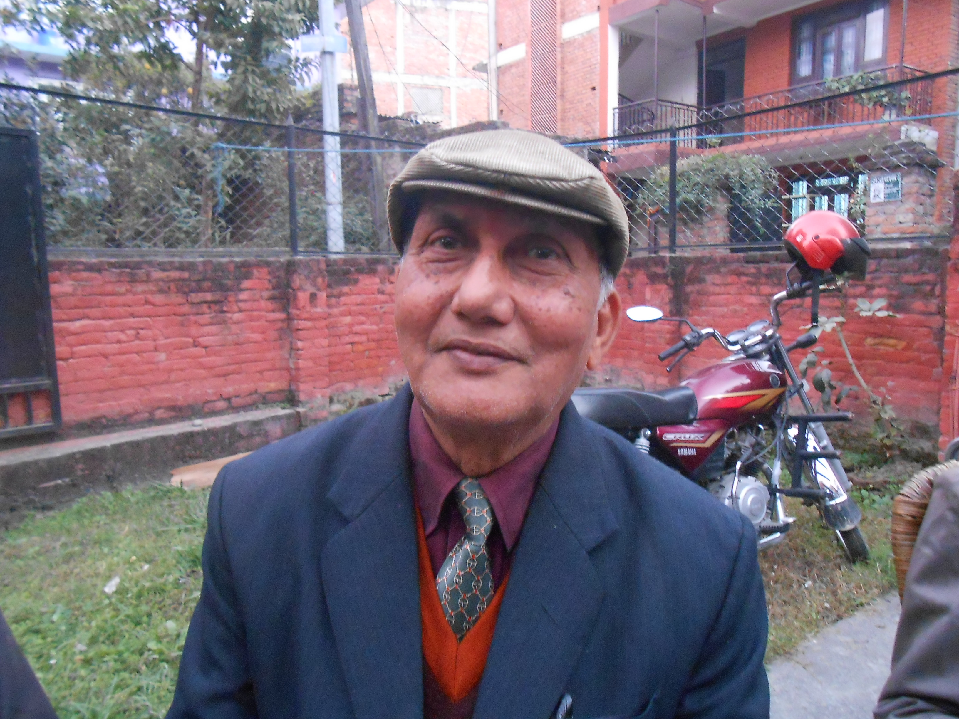 Vishnu Raj Atreya (Bhootko Bhinaju) a Nepali Writer